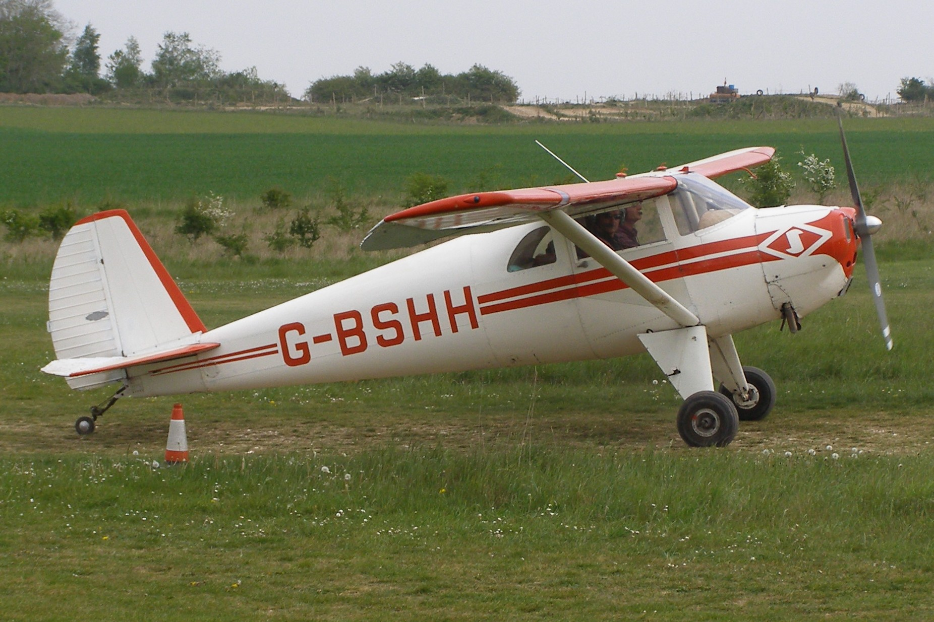 1946 Luscombe 8E G-BSHH at Popham England